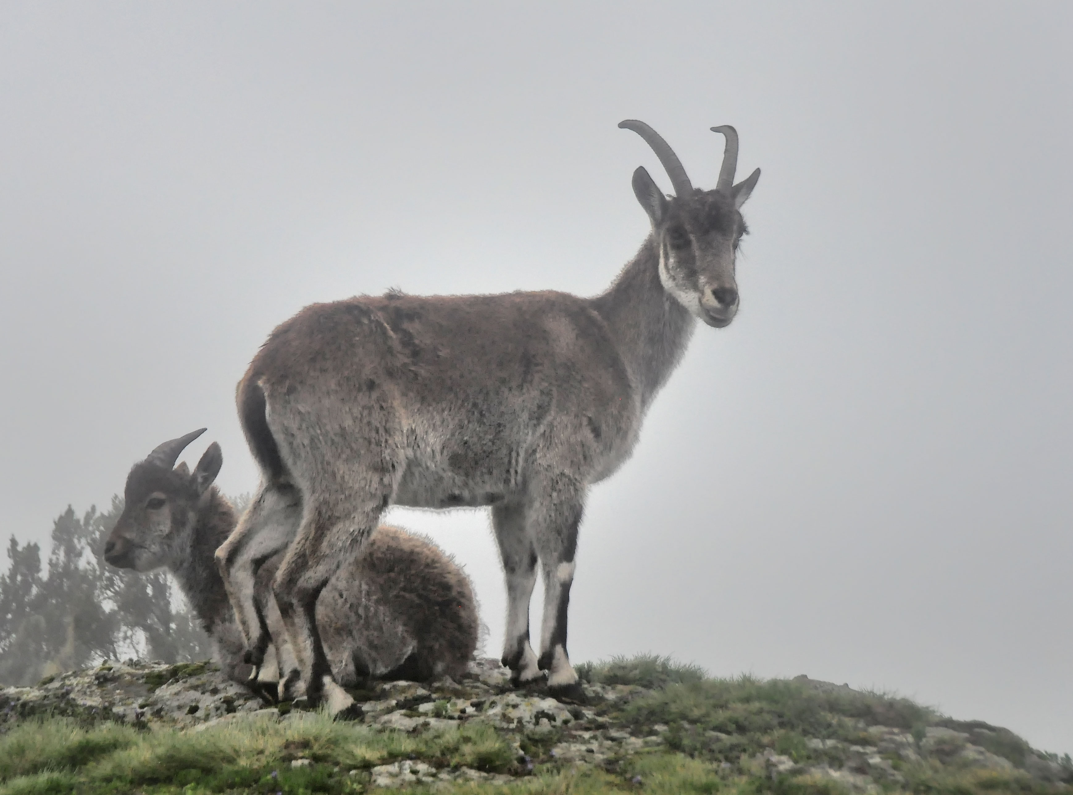 Female Walia Ibex, Simien Mts, Ethiopia